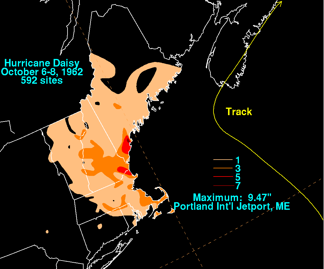 Storm total rainfall map of Hurricane Daisy during October 1962.